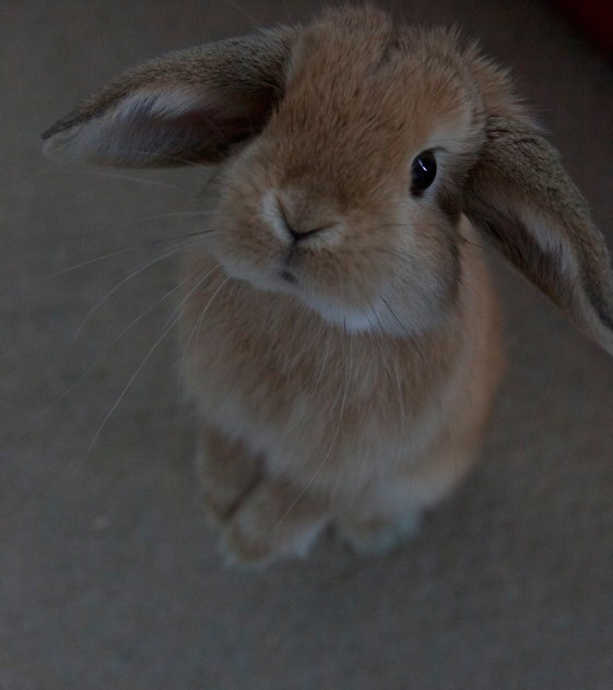 Pet name:QQ Summer, was born on 26 January 2011, England. Breed: miniature lop. TheThe Miniature Lop was recognised by the British Rabbit Council in 1994 (Lop Breed-No.8), with a maximum weight of 1.6kg.